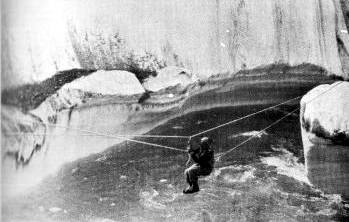 1938 American K2 expedition. First published in India in the Himalayan Journal in 1939 and not previously published.